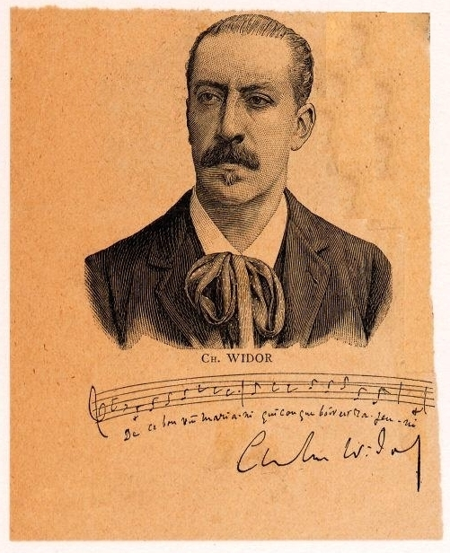 Engraving of Charles-Marie Widor